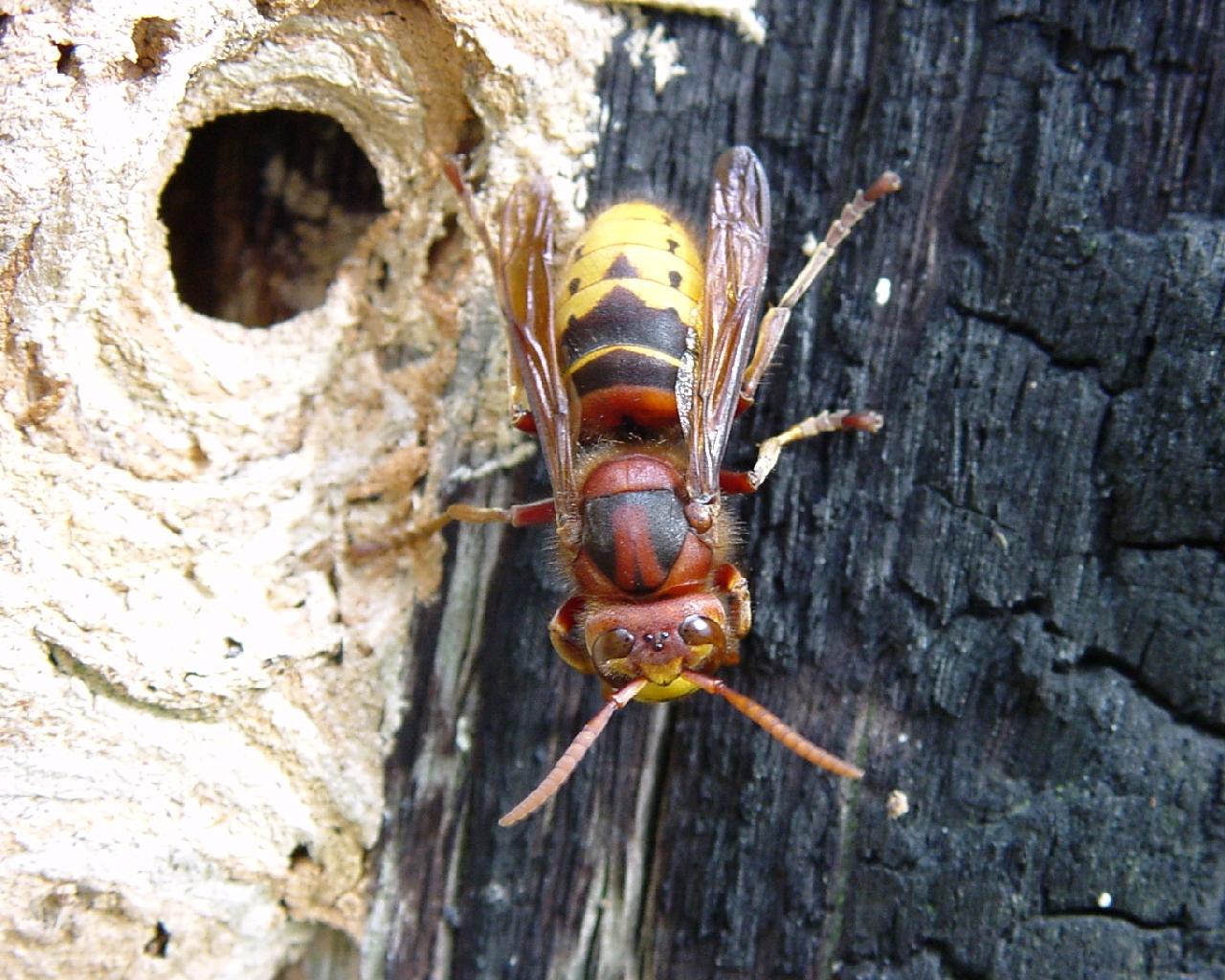 Hornet (Vespa crabro)(worker)(Netherlands)